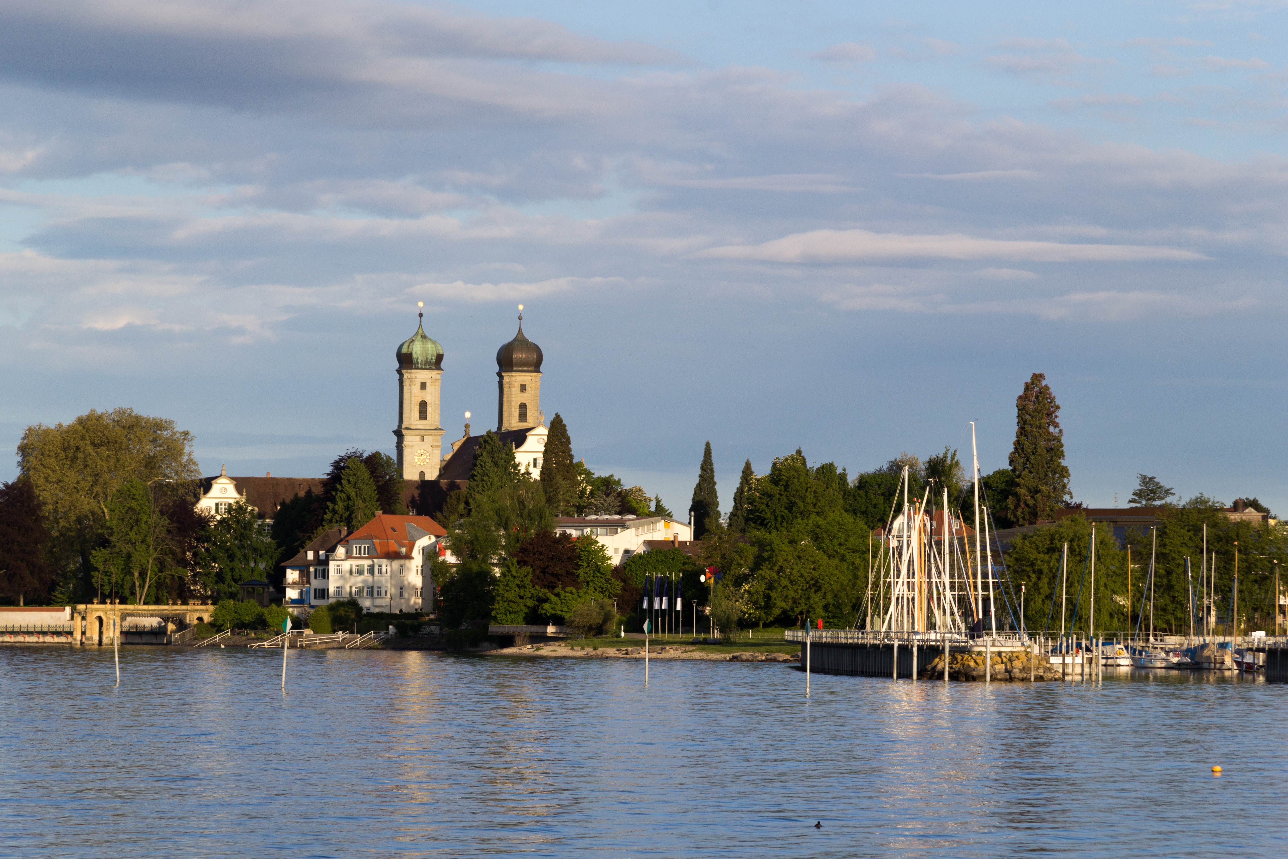 A panoramic view from the lakeside promenade in Friedrichshafen to the castle.